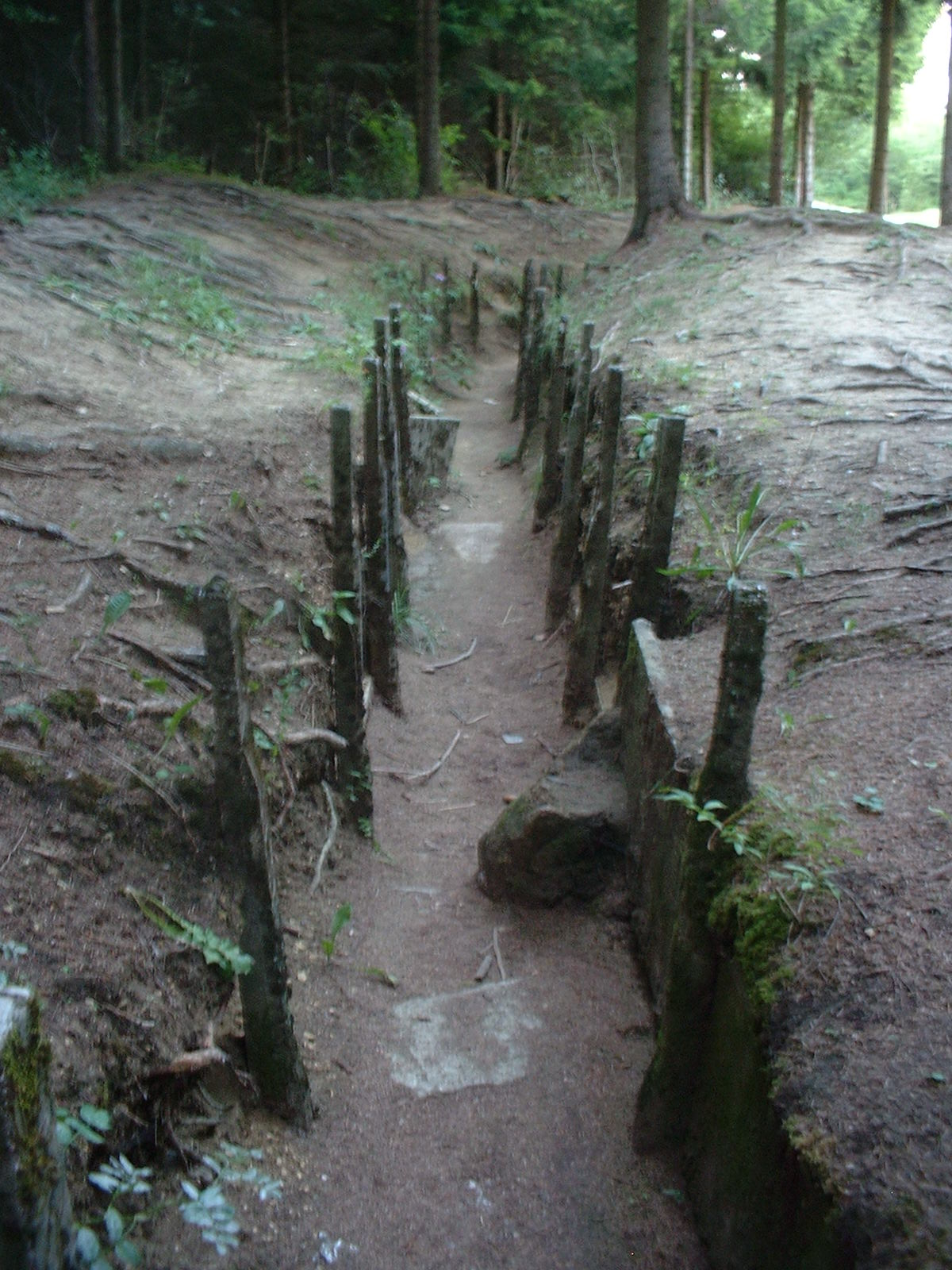 Remains of a trench on the battlefields of Verdun.